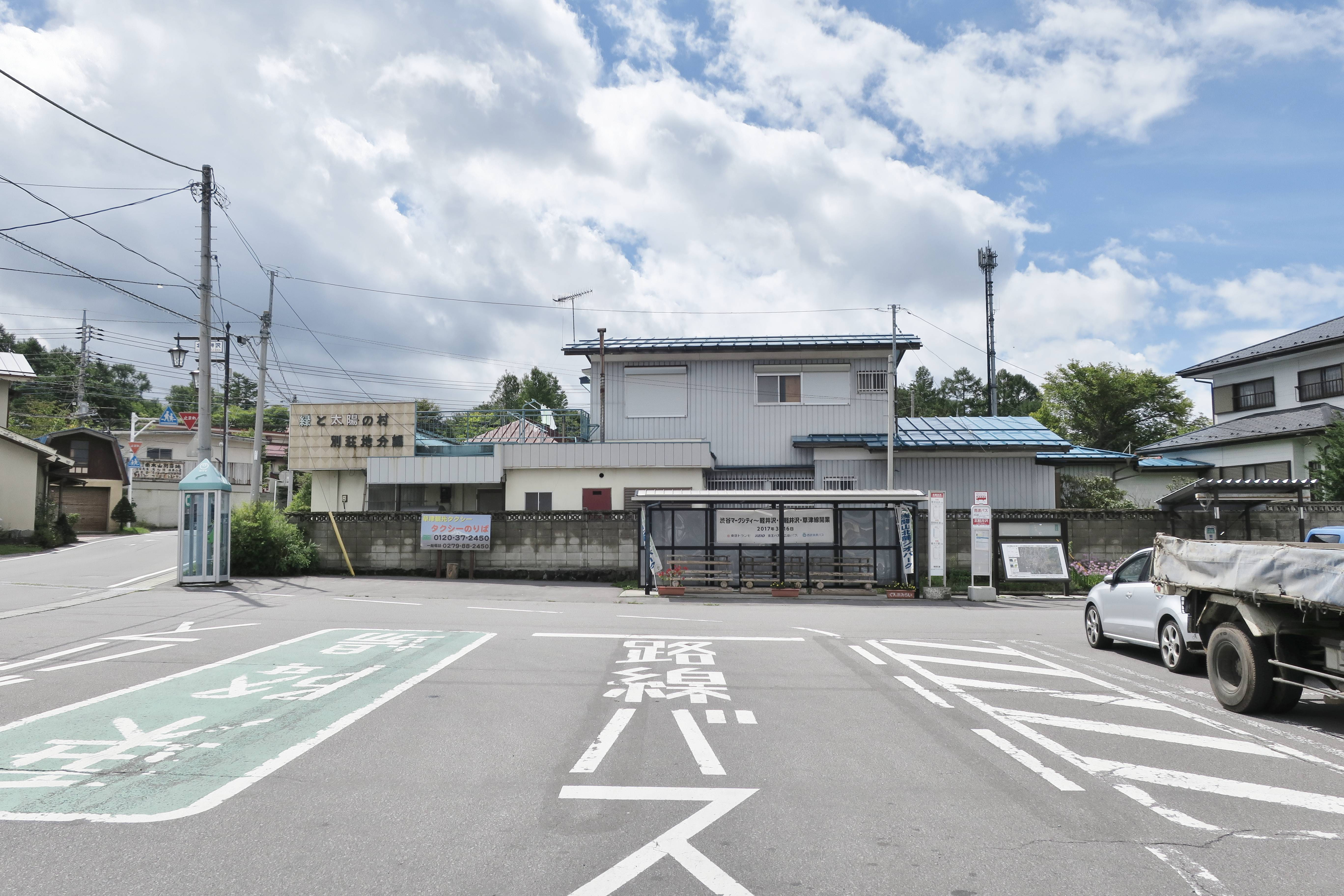 Kita-Karuizawa bus stop (Naganohara, Gunma).